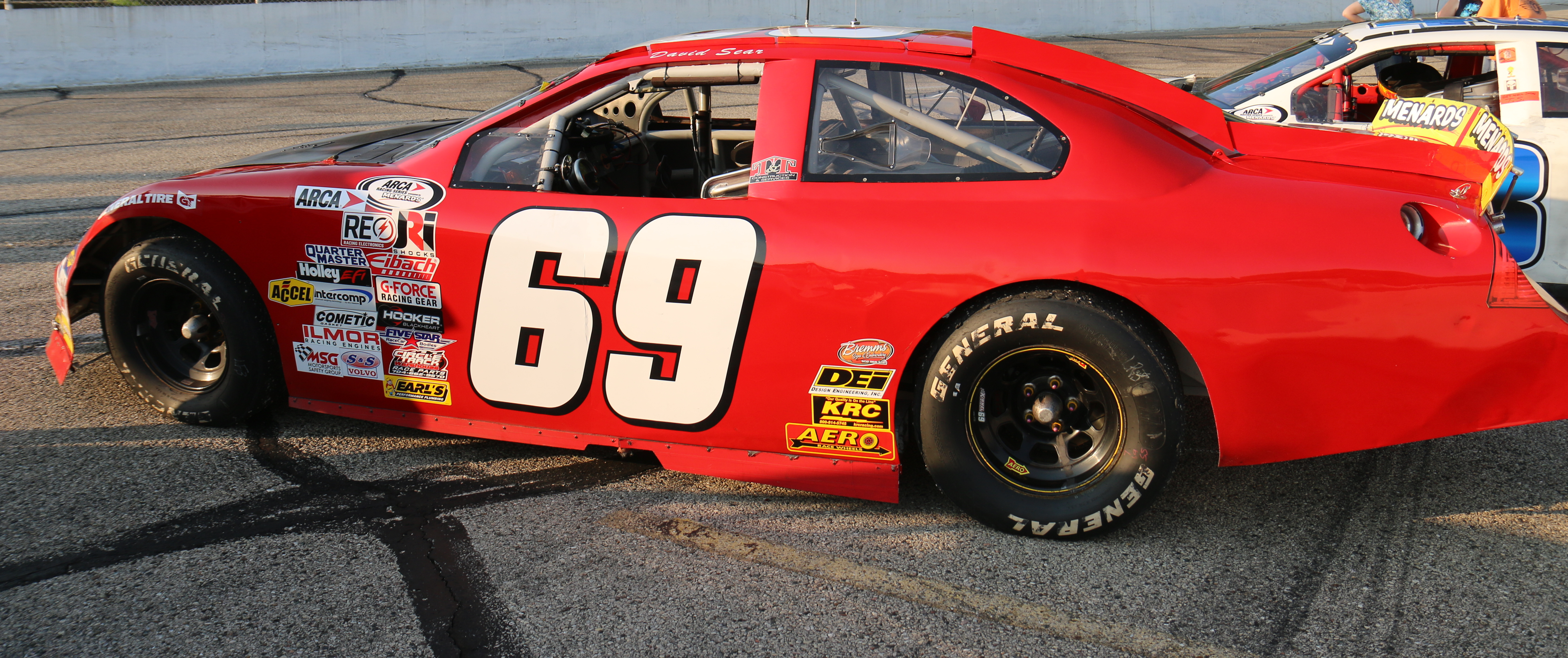 The #69 car of Darrell Basham on display at the 2018 ARCA race at Madison International Speedway.